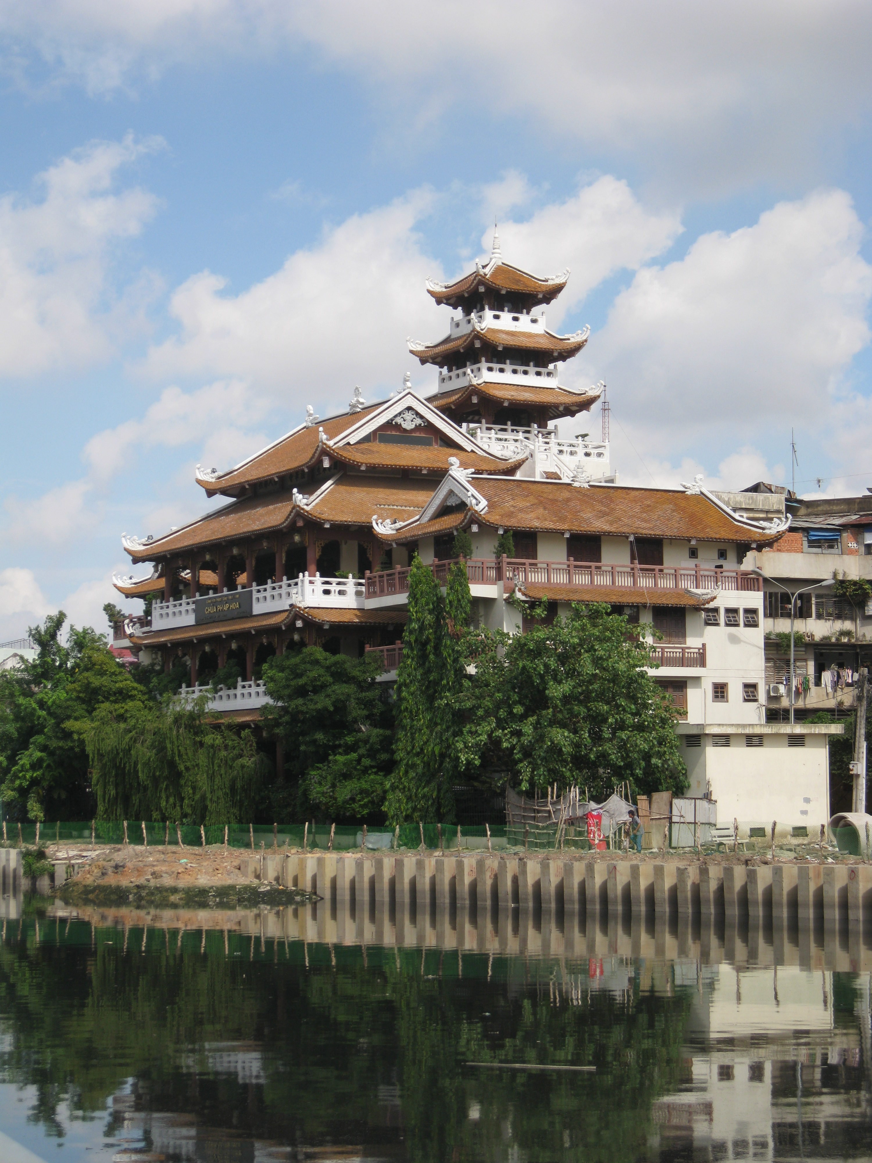 Pháp Hoa Pagoda, HCMC.